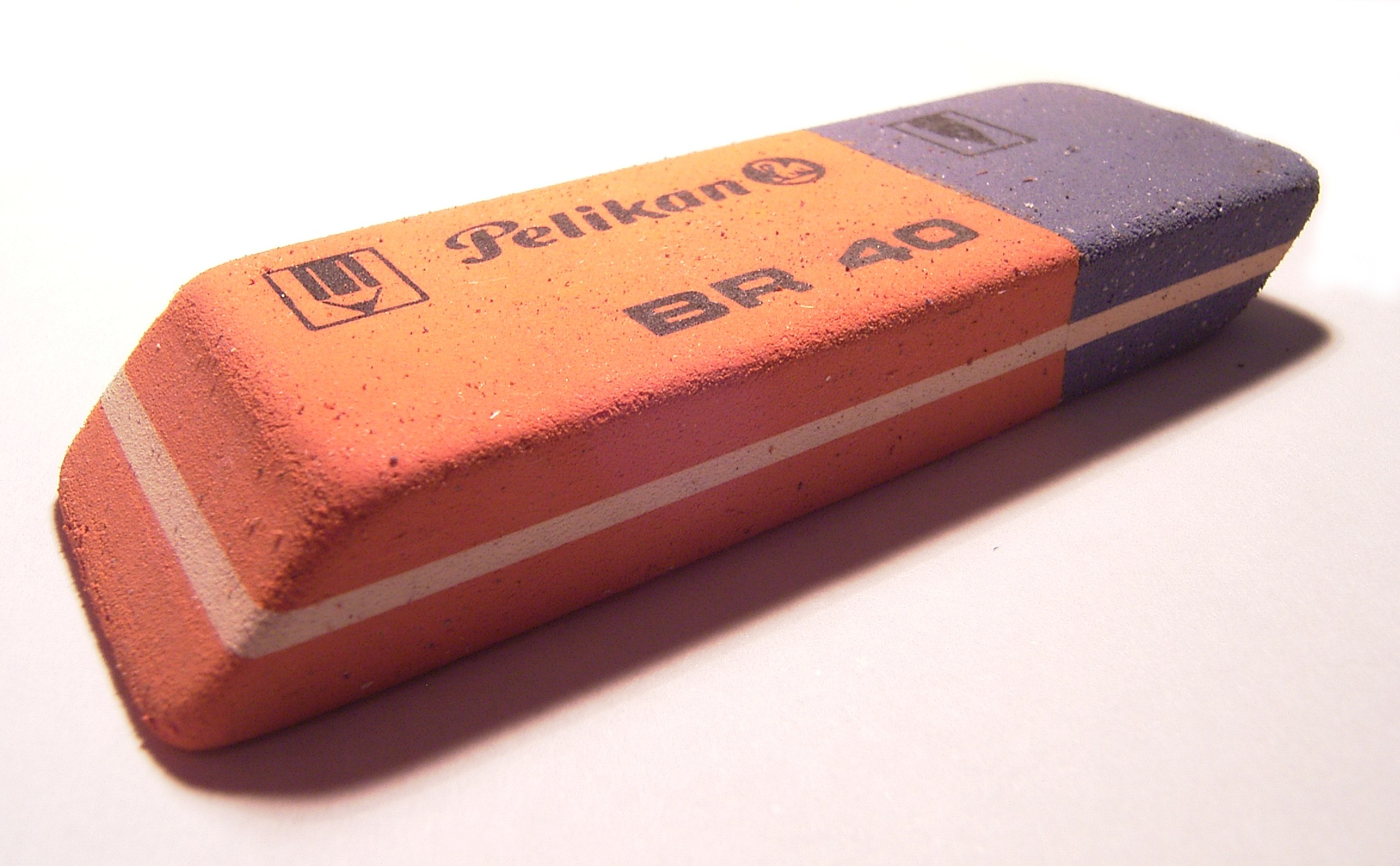 A Rubber manufactured by "Pelikan"